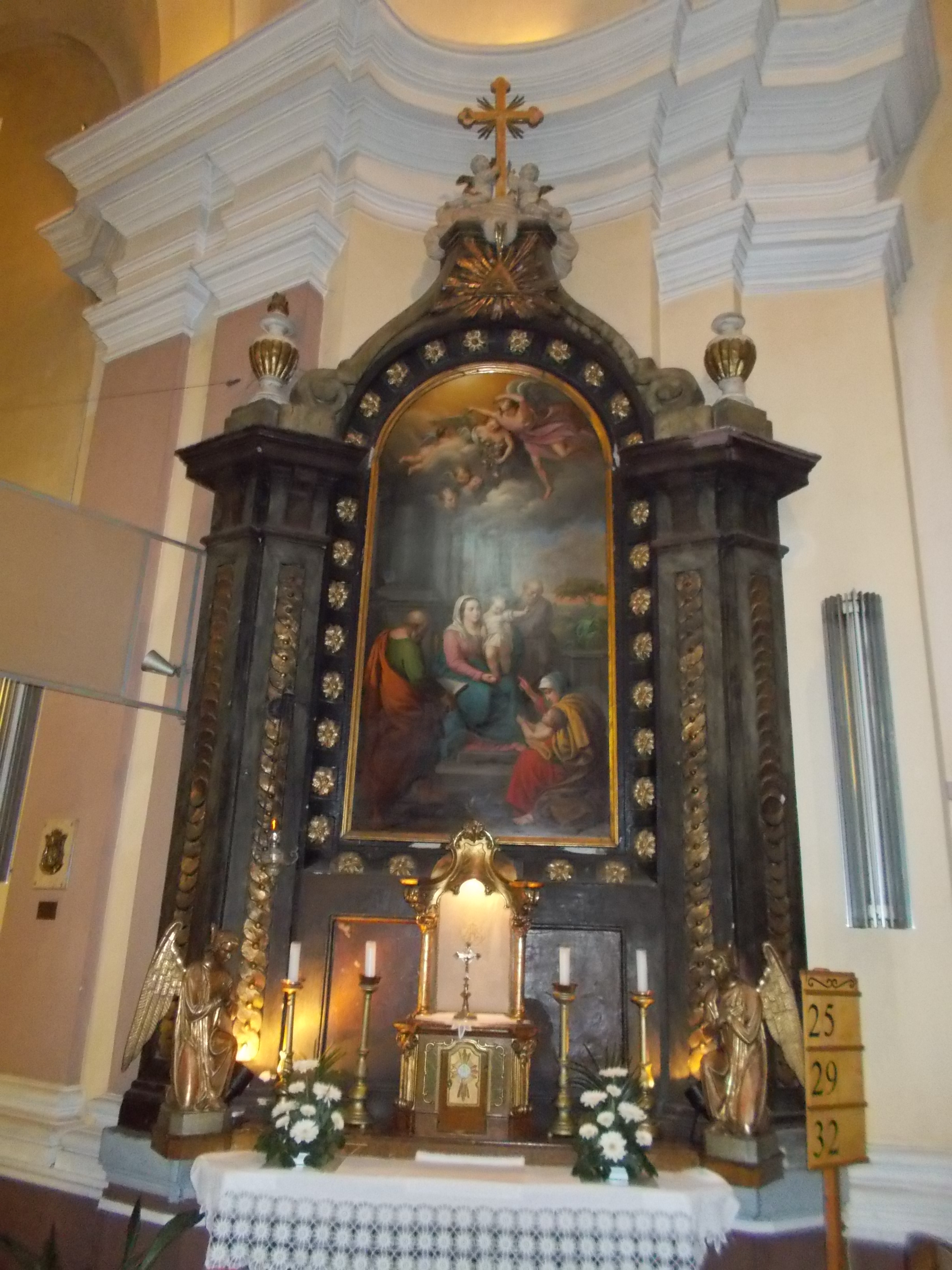 Saint Catherine Church. Holy Family Altar (1815), Holy Family altarpiece (Jakab Marastoni, 1851). - Attila Street, Tabán, Budapest